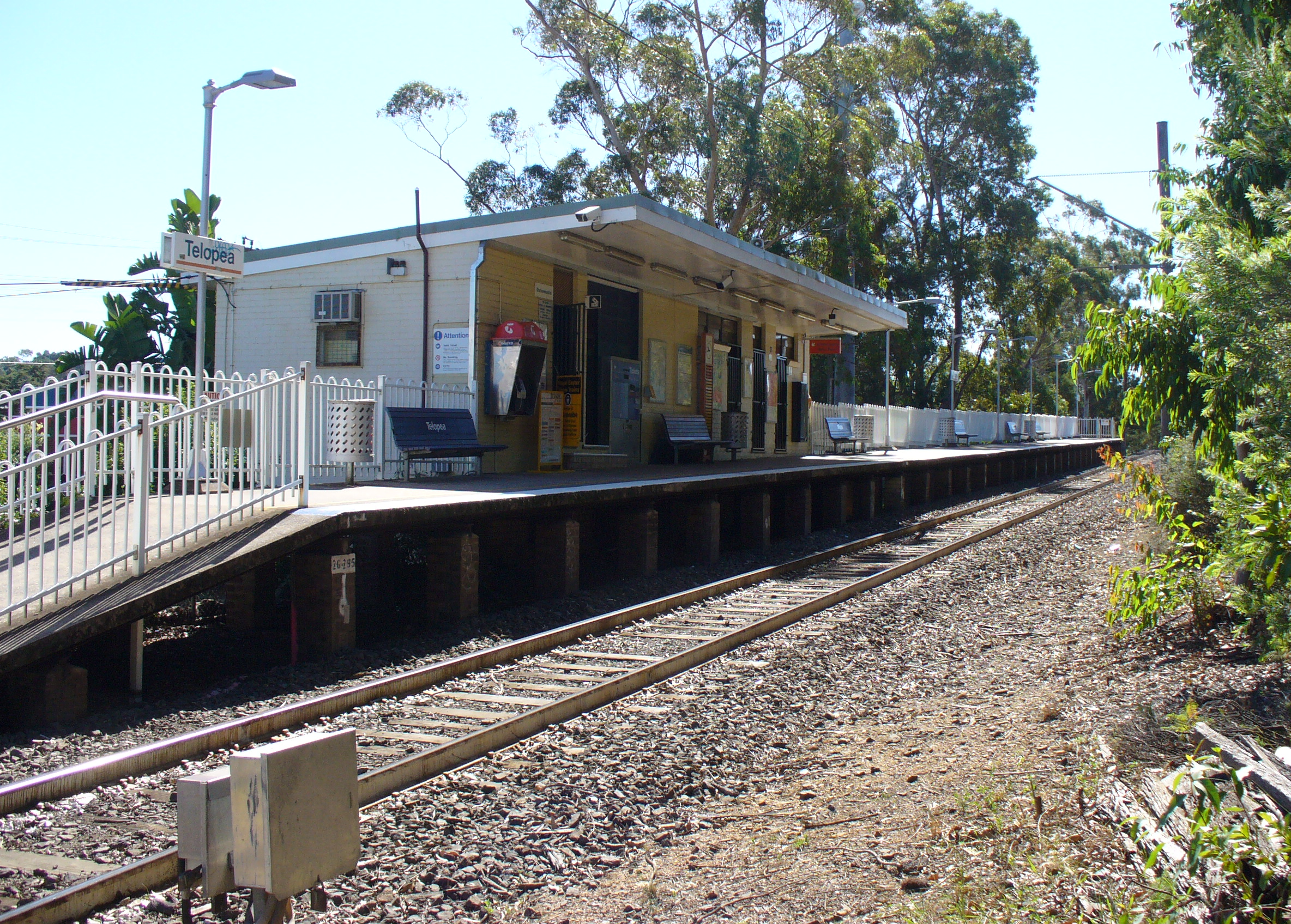 Telopea Railway station, Sydney